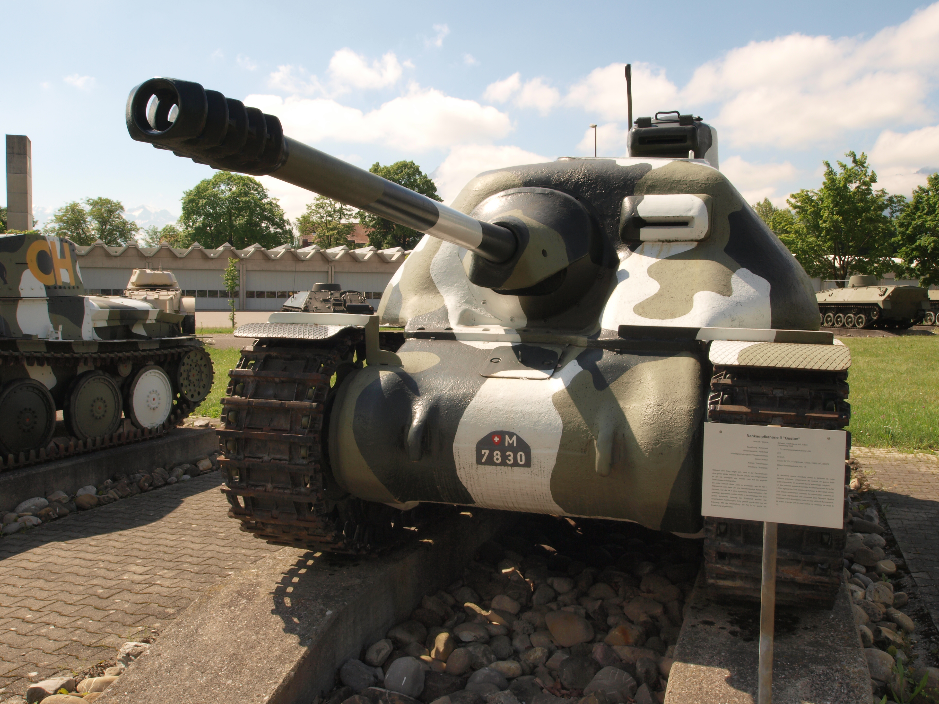 Photographed at the army base Thun, Switserland. OLYMPUS DIGITAL CAMERA